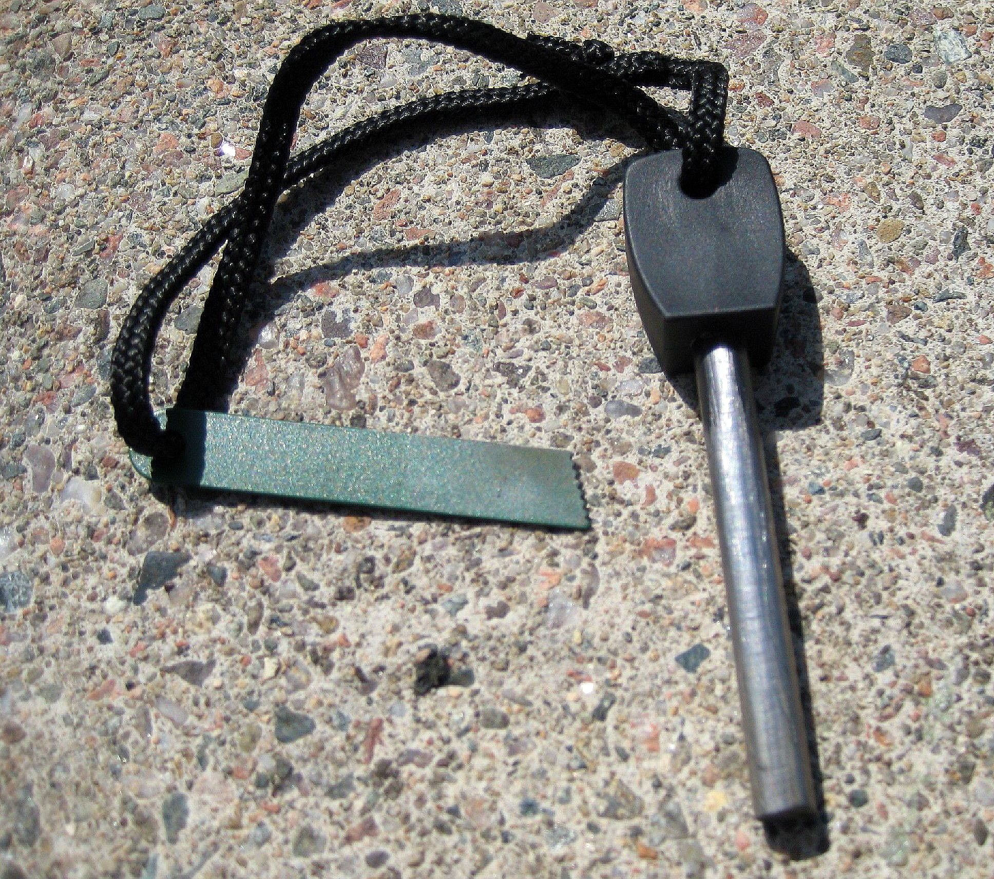 Fire striker, survival kit